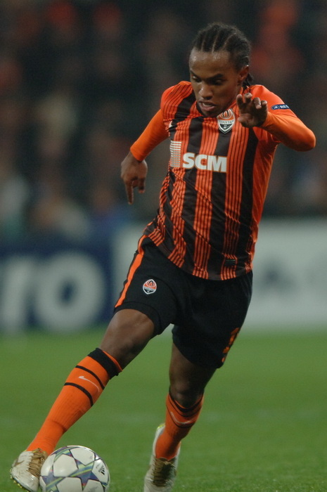 willian players of champions league